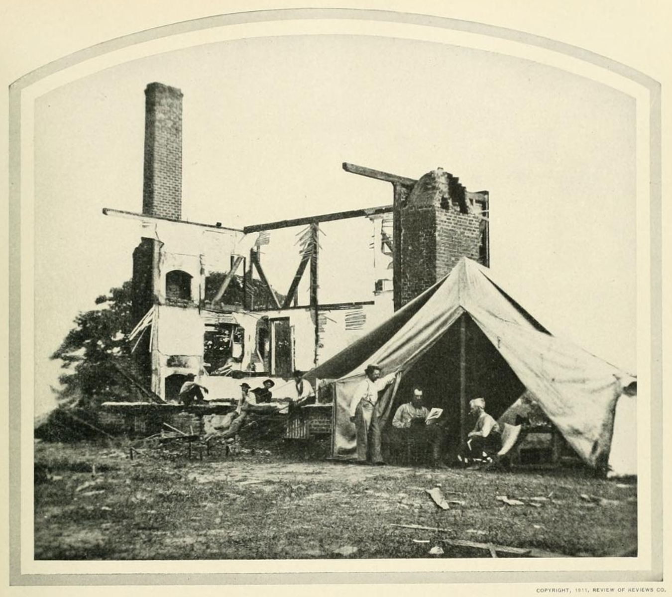 The ruins of the Henry House after the First Battle of Bull Run on July 21, 1861